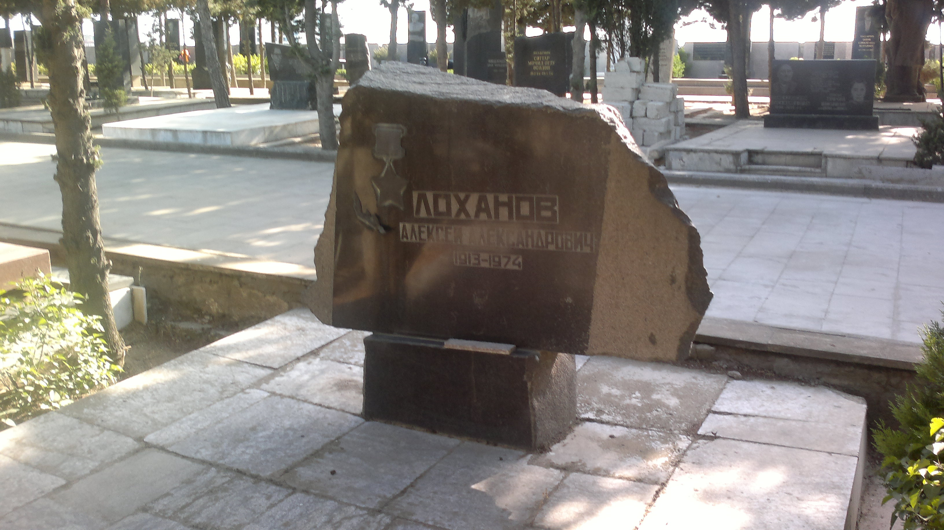 Burial of Aleksey Lokhanov at II Alley of Honor (Azerbaijan)